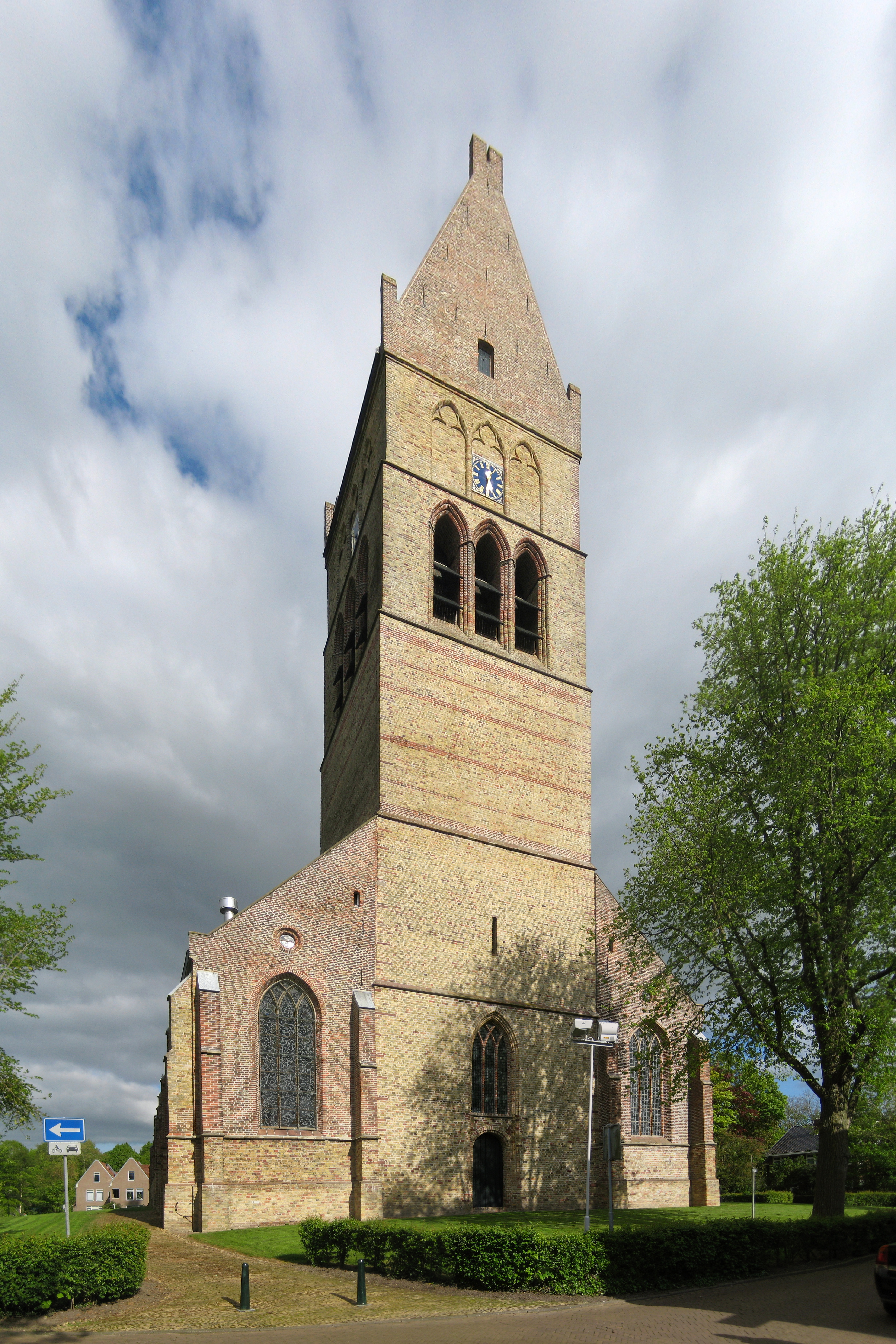 The Martinikerk, a fifteenth century church in Bolsward, a city in the Dutch province of Fryslân.